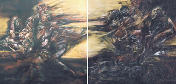 1 Painting Rebelion para una esperanza (Rebellion for hope) by Mauricio García Vega